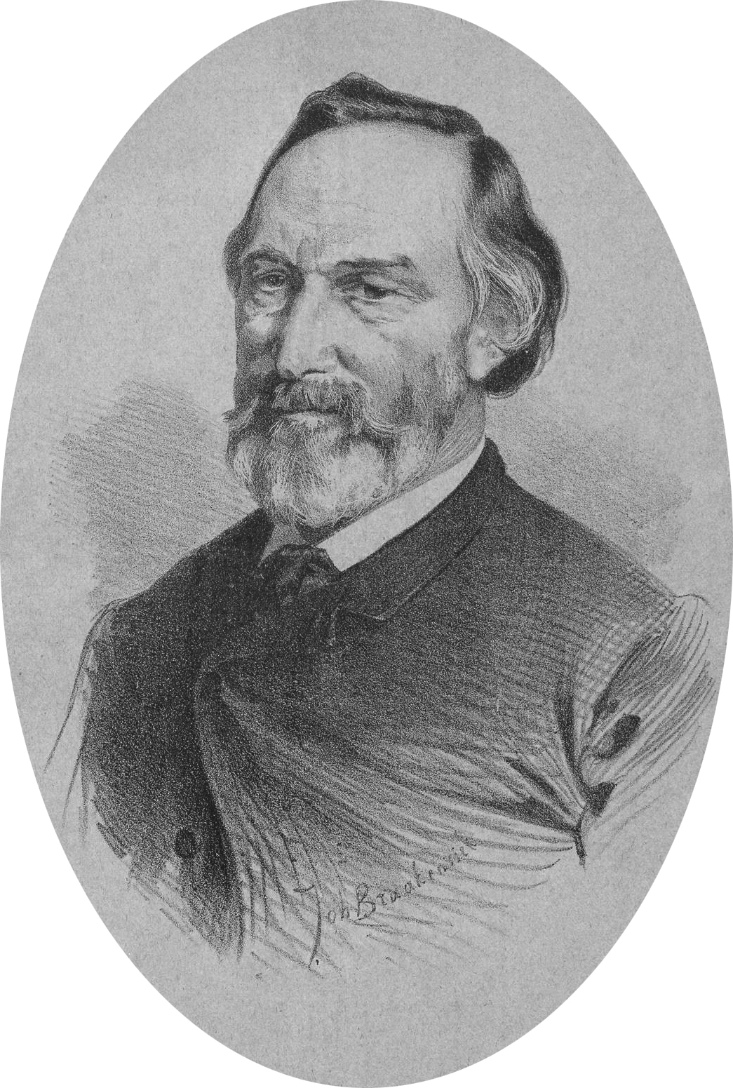 Frans Coenen lithography 1890 26 x 18 cm